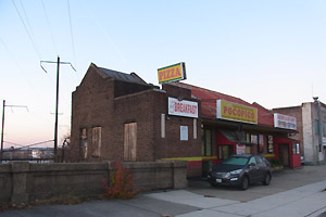 The former Edmondson Avenue station building in December 2017